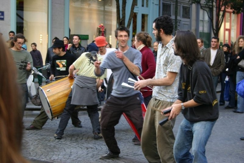 Street musicians in Paris